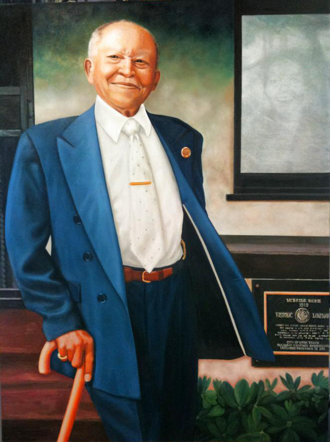 This is a painting by Artist Saam McBride, granddaughter of Ernest S. McBride, Sr. who is captured standing in front of his home, after it had been named a historic landmark